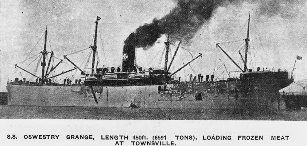 Houlder Brothers' refrigerated cargo ship Oswestry Grange loading frozen meat at Townsville, Queensland.